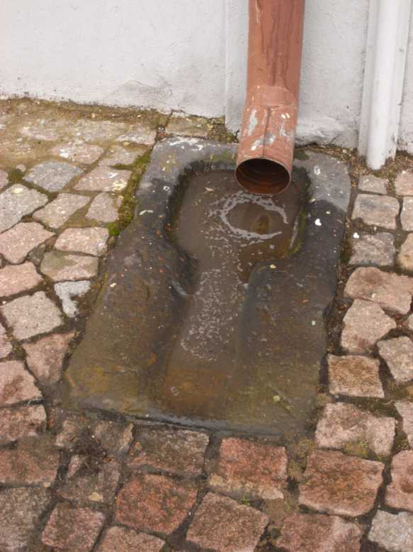 old street gutter in Vysoké Mýto (sandstone) and red granite cobbelstones